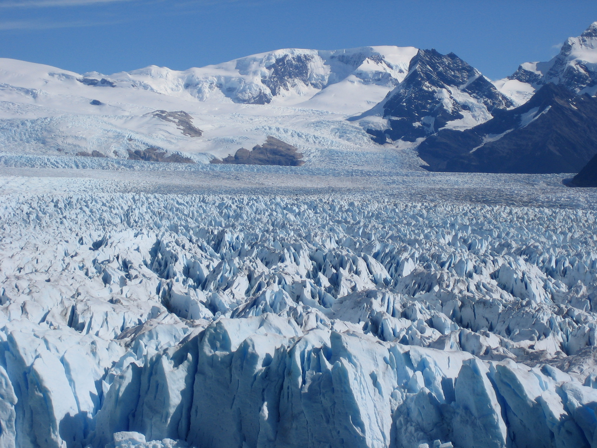 Perito Moreno Glacier, in Los Glaciares National Park, southern Argentina